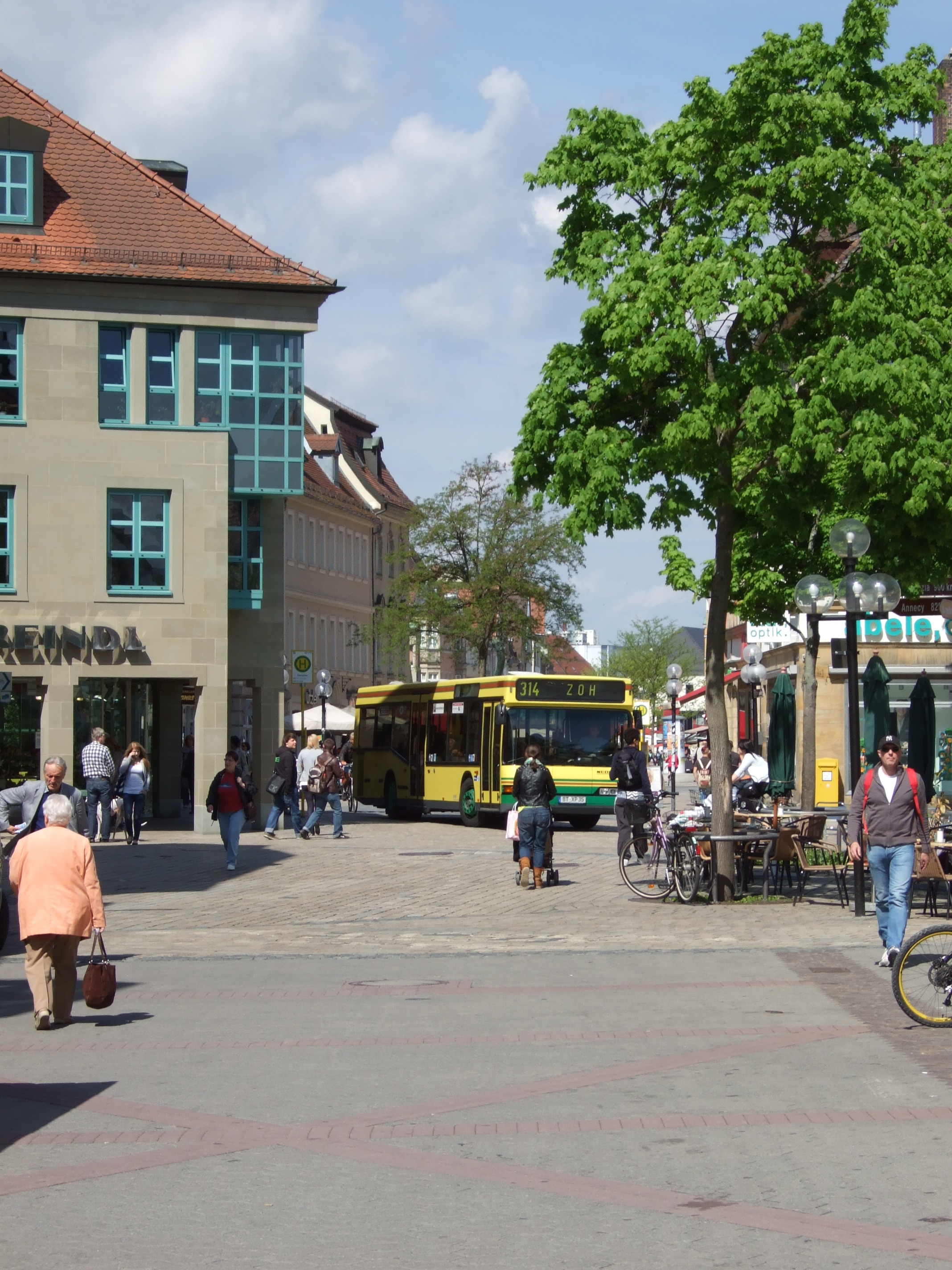 Autobus on the Sternplatz in Bayreuth